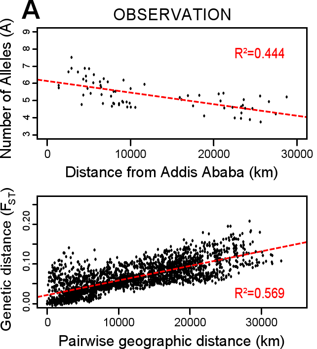 The patterns of isolation by distance as shown among human genetic data representing 346 microsatellite loci taken from 1484 individuals in 78 human populations. The horizontal axis of both charts is geographic distance as measured along likely routes of human migration. The upper graph illustrates that as populations are further from East Africa (represented by the city of Addis Ababa), they have declining genetic diversity as measured in average number of microsatellite repeats at each of the loci. The bottom chart measures the genetic distance between all pairs of populations according to the Fst statistic; populations with a greater distance between them are more dissimilar than those which are geographically close to one another. This chart appeared as part of a study demonstrating how computer-simulated migration can replicate the empirical data. The study that provided this image is: Kanitz R, Guillot EG, Antoniazza S, Neuenschwander S, Goudet J (2018) Complex genetic patterns in human arise from a simple range-expansion model over continental landmasses. PLoS ONE 13(2): e0192460.